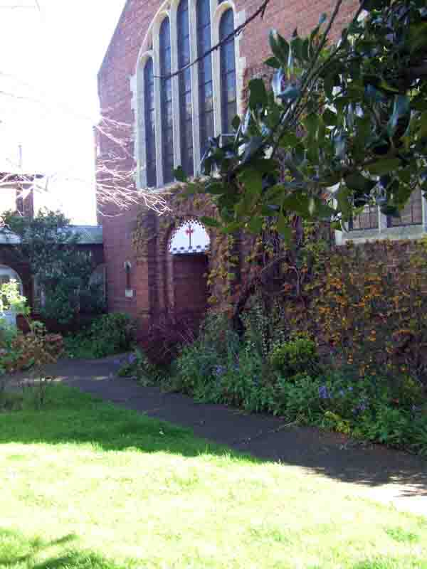 Photograph of the West Front of the Church of St Augustine of Hippo Grimsby